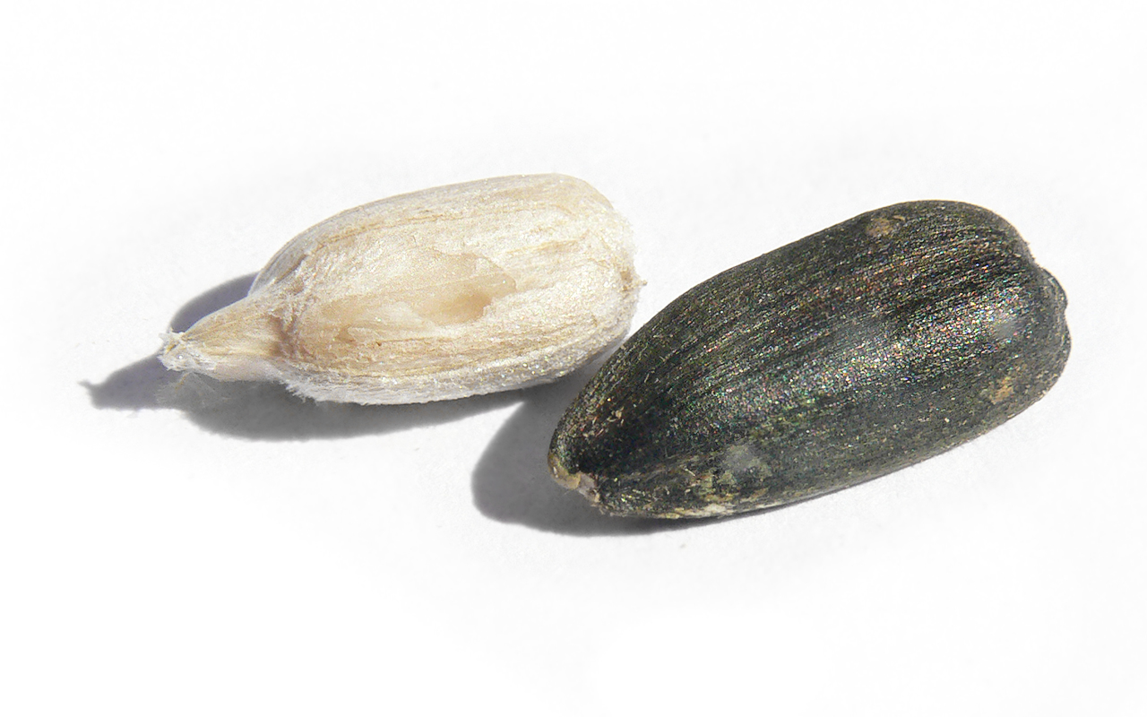 Sunflower seed. Whole seed (achene) (right) and just the kernel with the shell removed (left)